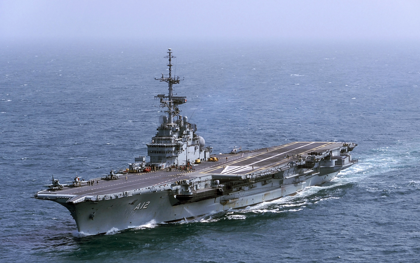 Sao Paulo at sea, seen from a Bell 206 Jet Ranger